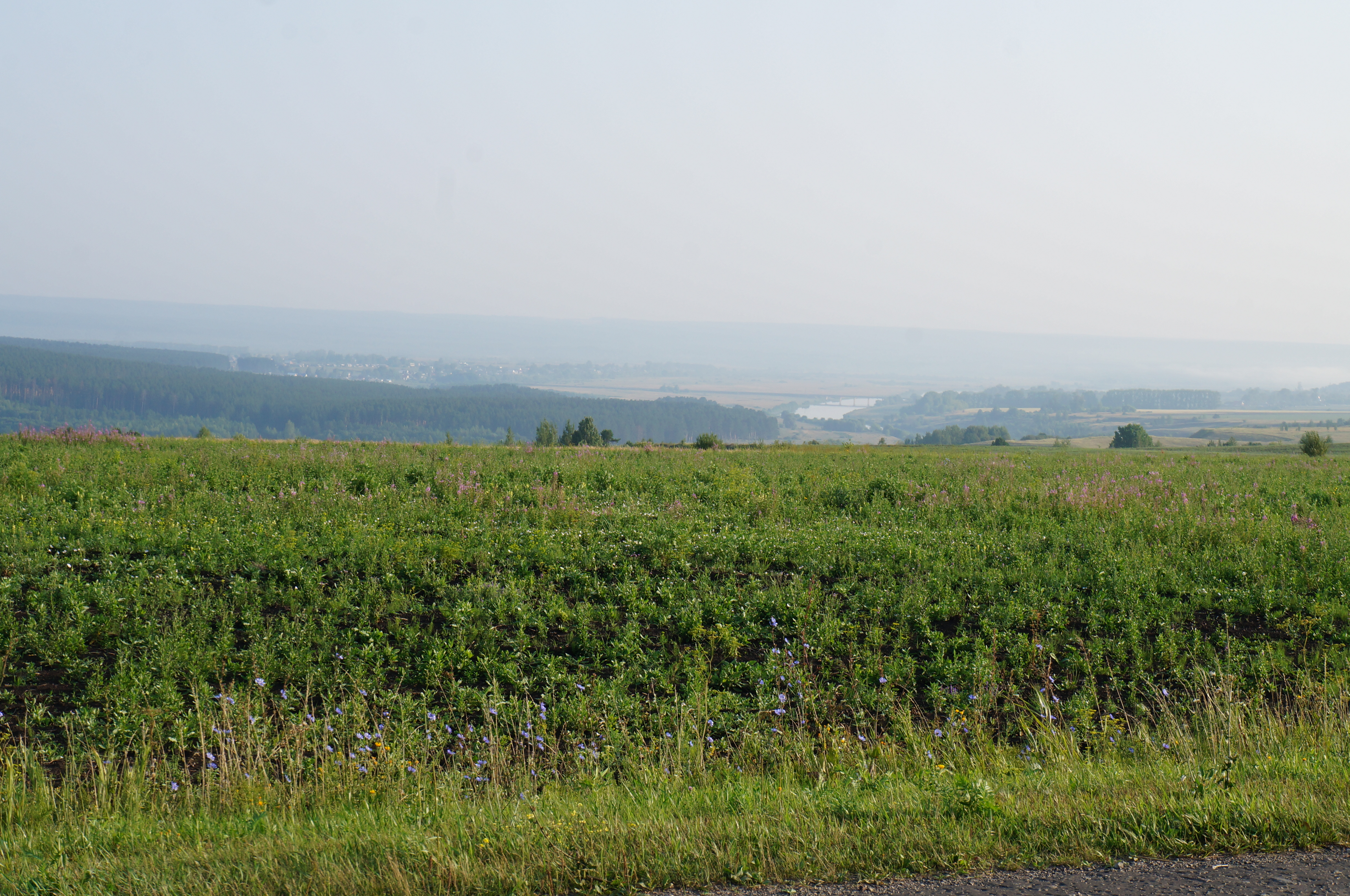 The bridge over the river Alatyr. On the left is the town of Ardatov.